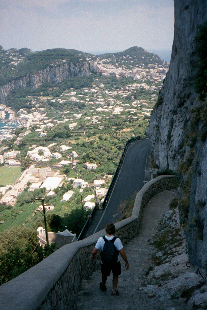 Phoenician Steps between Capri and Anacapri